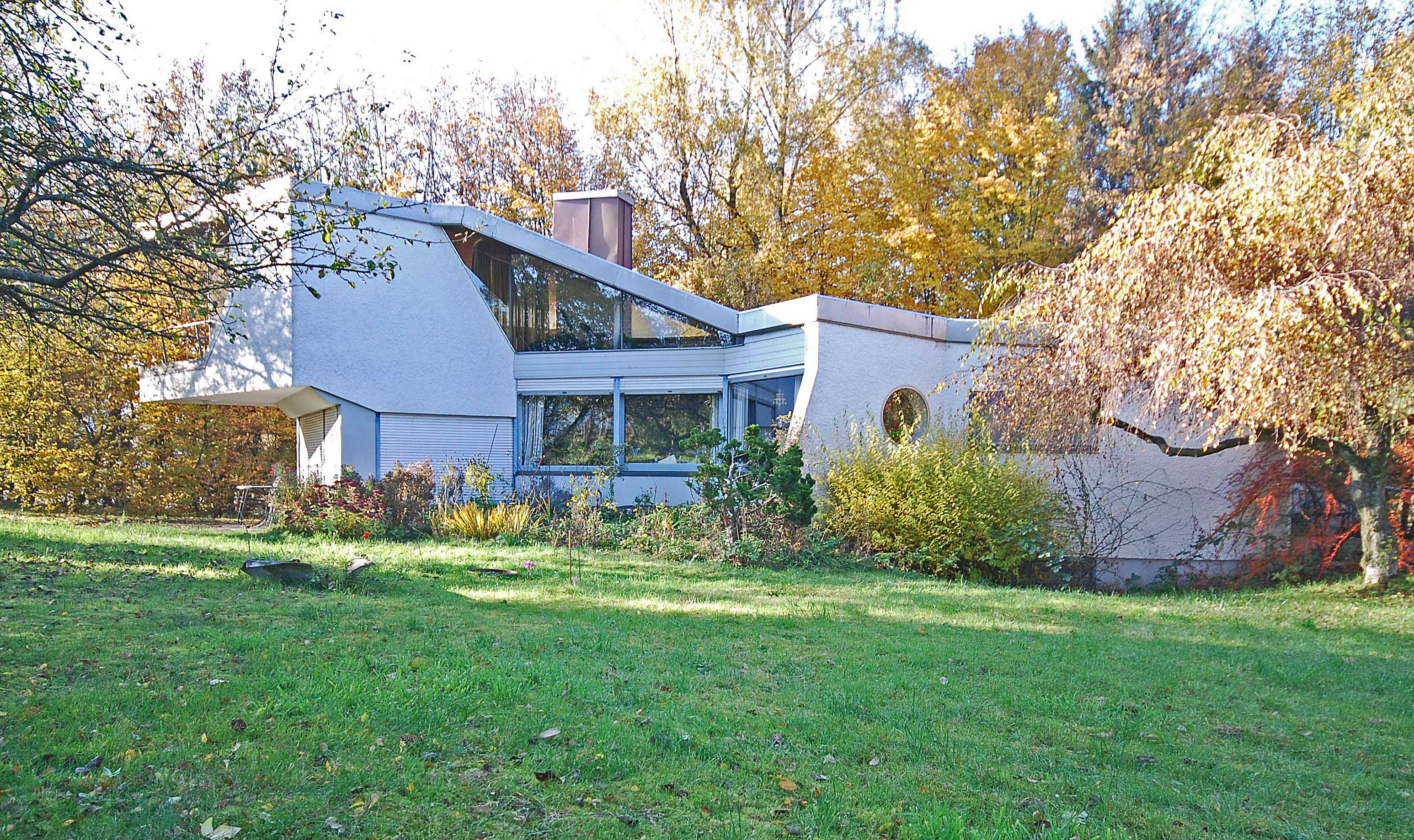 Chen Kuen Lee, Schmidt mansion (1960)